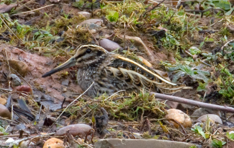 Jack Snipe Lymnocryptes minimus. Sandwell, West Bromwich, England.